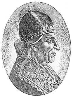 Summary H.H. Pope Alexander II